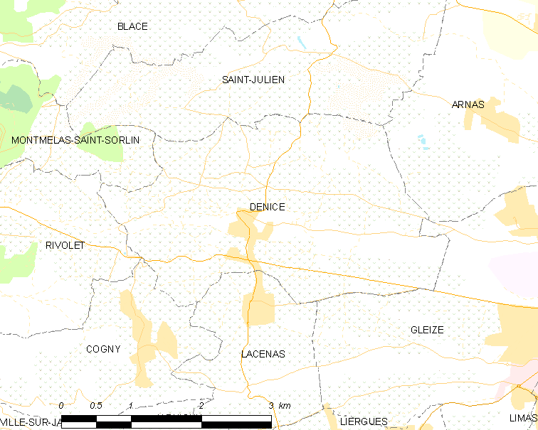 Map of French municipality